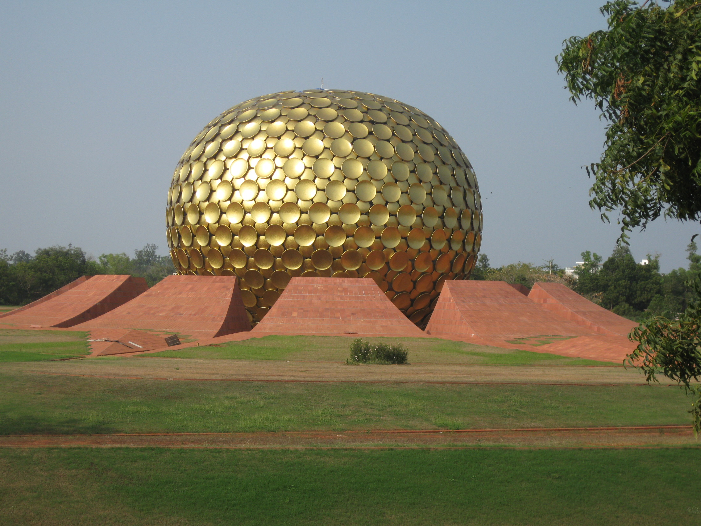 Matrimandir, Soul of the Auroville, near Pondicherry set up by "The Mother"